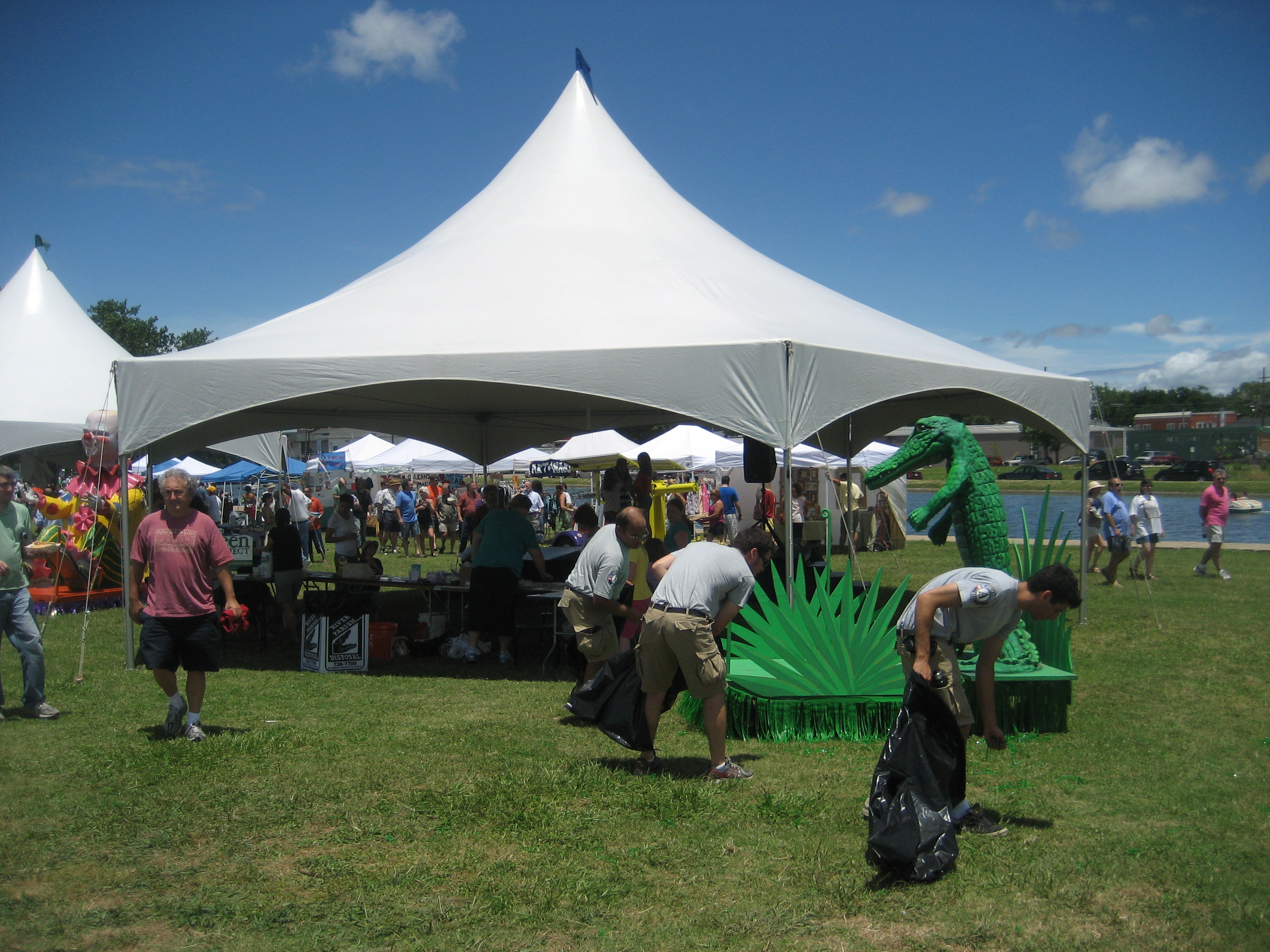 Mid-City Bayou Boogaloo, New Orleans.